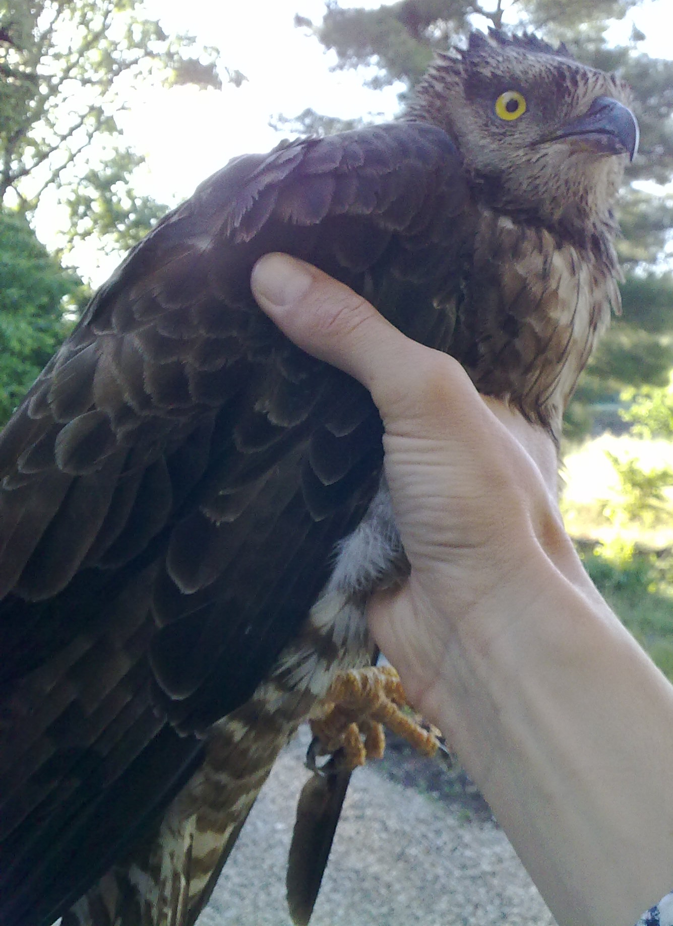 Honey-buzzard, weight 1.1 lb